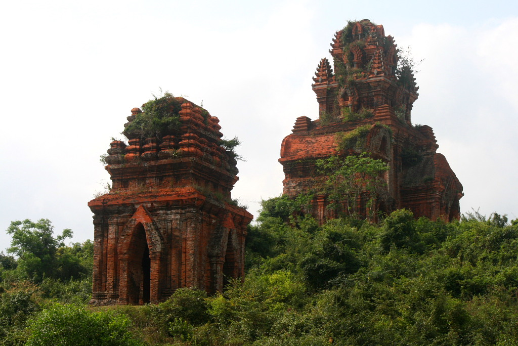 Banh It Cham towers in Binh Dinh Province, Vietnam